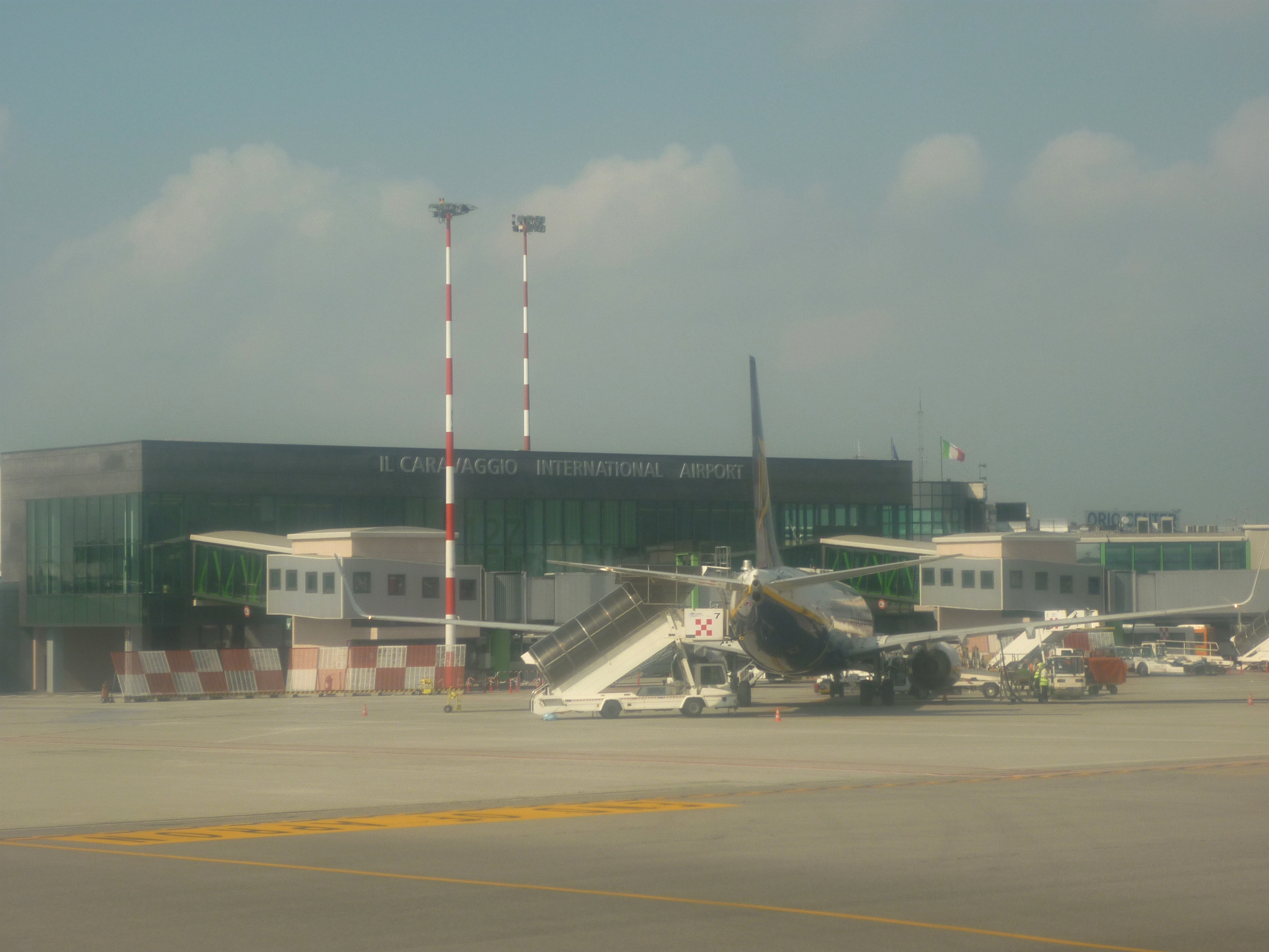 Apron and Terminal of Il Caravaggio International Airport, better known as Milano-Bergamo Airport (IATA:BGY), ITALY